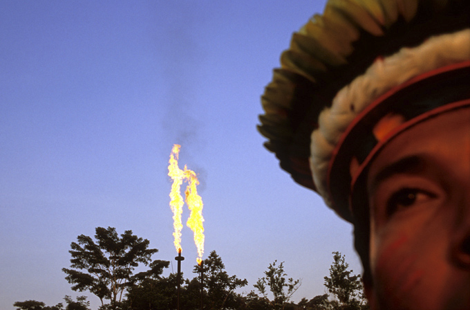 Chief Robinson, the leader of the Cofan Indians and a strong activist in the suit against Texaco. Photographed in front of the Guanta oilrig, Chief Robinson argues that the oil production has contaminated the river nearby as well as members of his community, who live down stream and several other parts of the region. He feels that « the government tries to convince us that oil is the future of Ecuador. The oil has only brought catastrophe here. We, the Cofan, are unanimous and determined to protect what is left of the forest. All of Mankind needs it. »